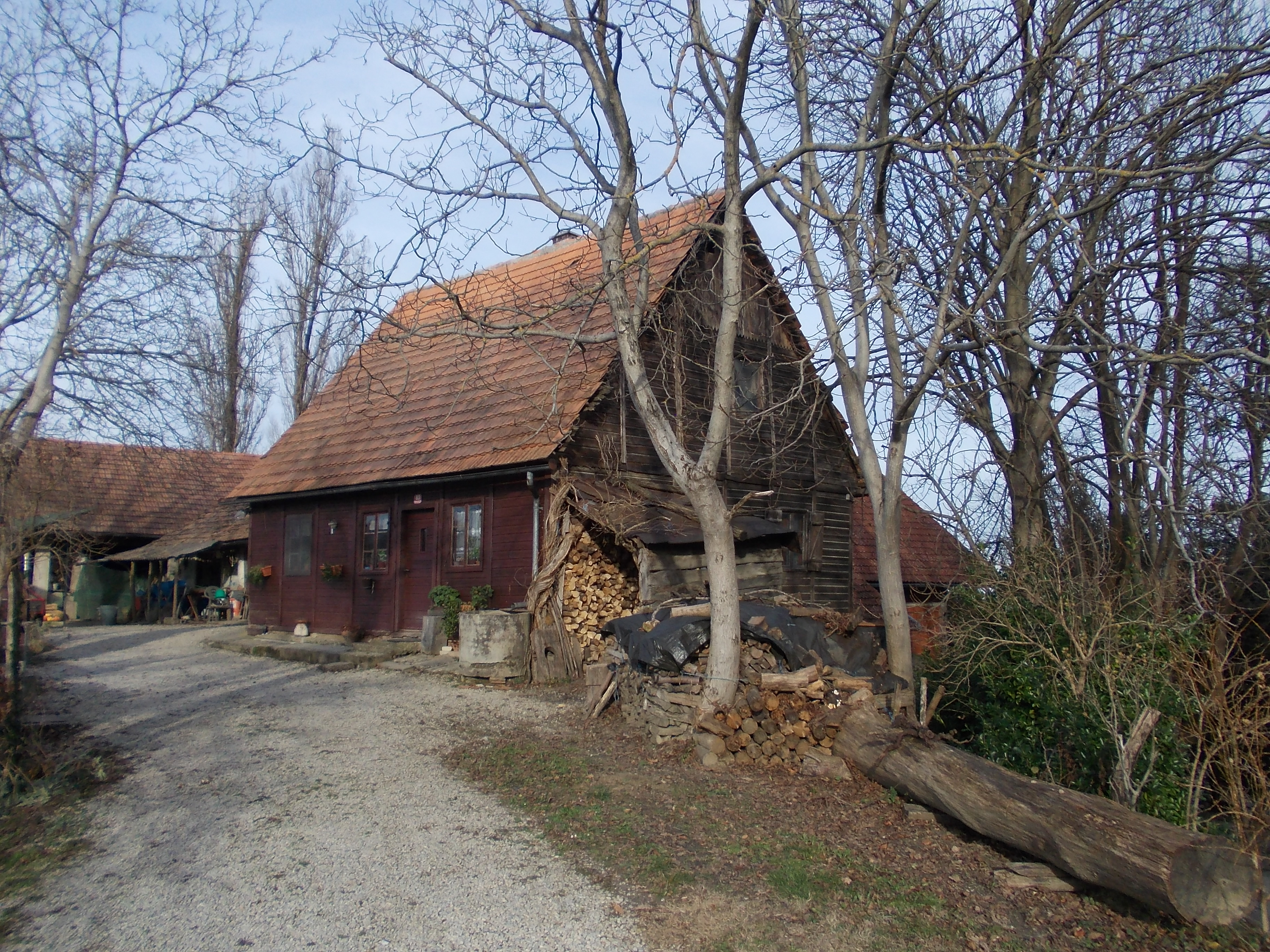 Log house in Stara Vas–Bizeljsko